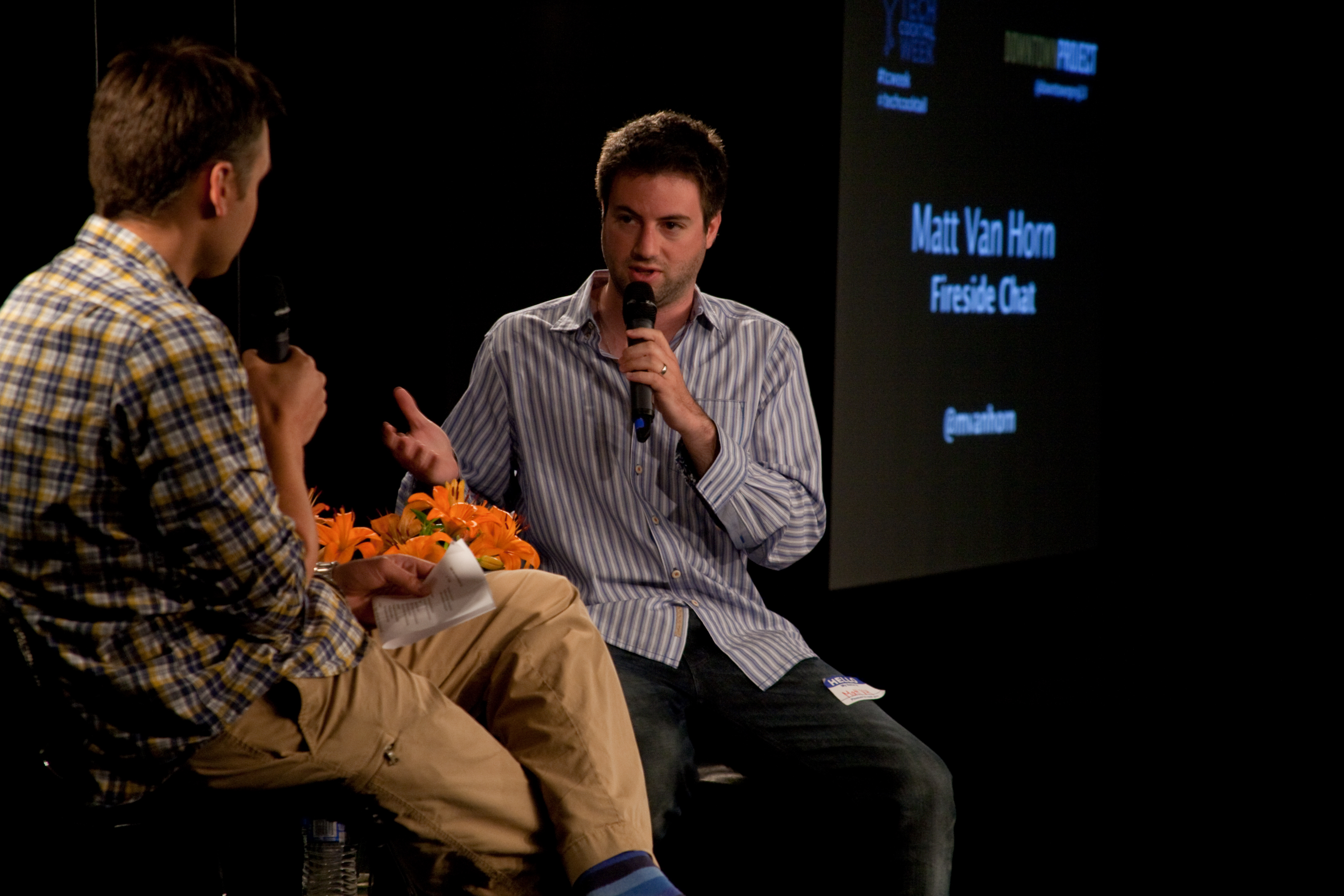 Tech Cocktail Week: Sessions Speaker Series Downtown Vegas was held at The Learning Village on July 12th, 2013. The evening was full of insightful and intimate discussions and presentation by our presenters - Clay Hebert (Founder & CEO, Spindows), Matt Van Horn (VP of Business Development, Path), Sarah Elizabeth Ippel (Founder, Academy for Global Citizenship), Stefan Weitz (Director, Bing) and Julia Roy (Cofounder, WorkHacks). Pictures by Allyson Limon